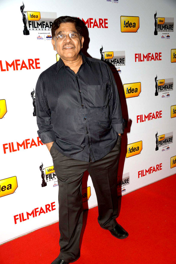 Allu Aravind at 60th South Filmfare Awards 2013